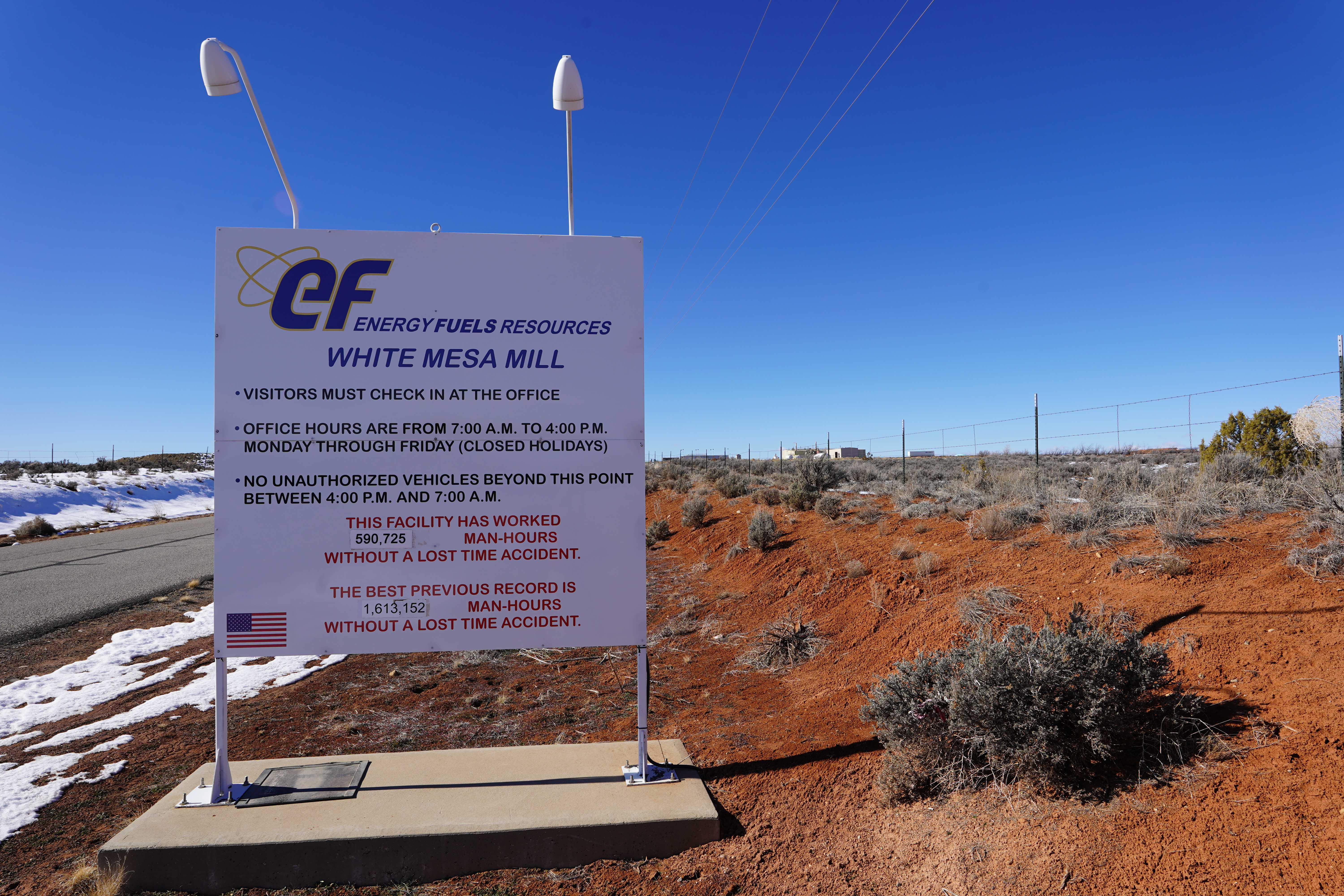 The front sign of the White Mesa Mill located south of Blanding, Utah. It is a uranium ore processing facility operated by Energy Fuels Resources. Photograph taken on 2019-01-22T19:36:57Z.